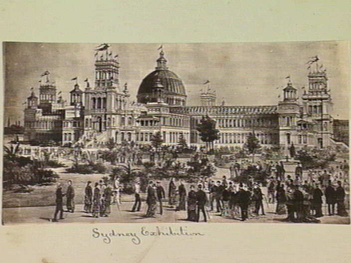 Australian International Exhibition, Sydney, 1879-1880 at the Garden Palace.